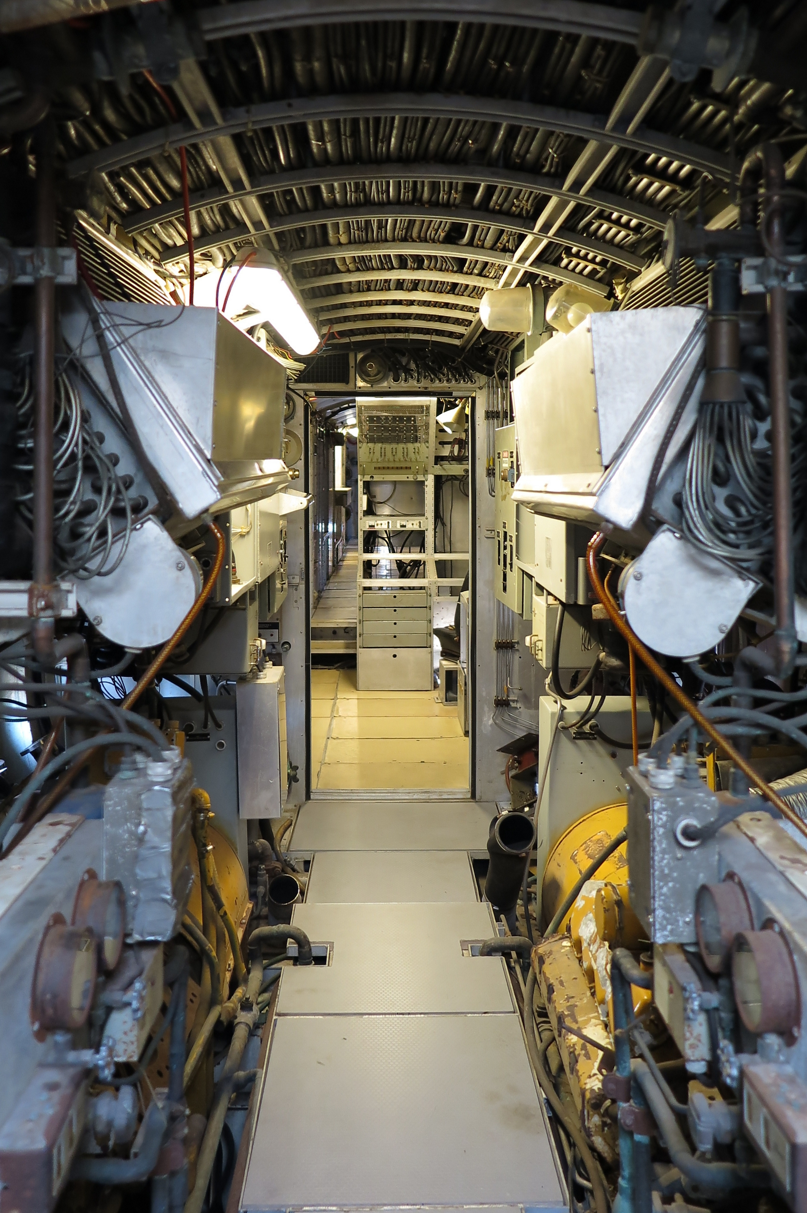 The center aisle from the rear through the drive unit in the direction of the control station. Swiss museum of transportation in Lucerne, Switzerland, Nov 3, 2014. (8/15)